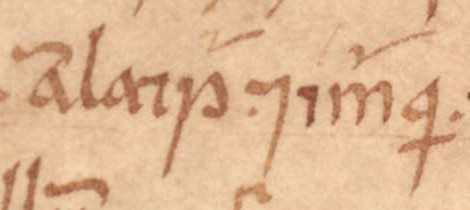 An excerpt from folio 25v of Oxford Bodleian Library MS Rawlinson B 489 (the Annals of Ulster). The excerpt concerns Amlaíb (fl. c.853–871) and Ímar (died 873).